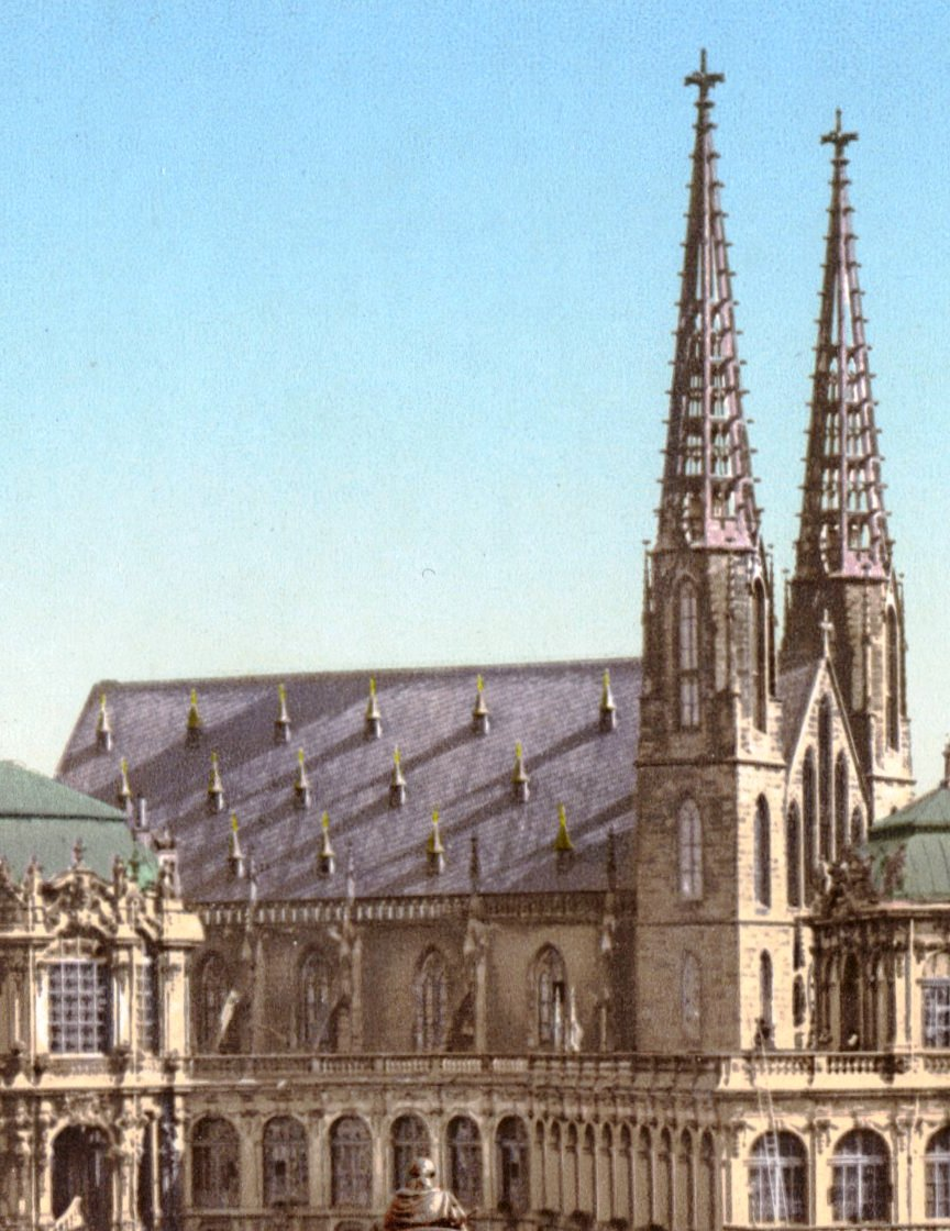 Sophienkirche in Dresden, Germany